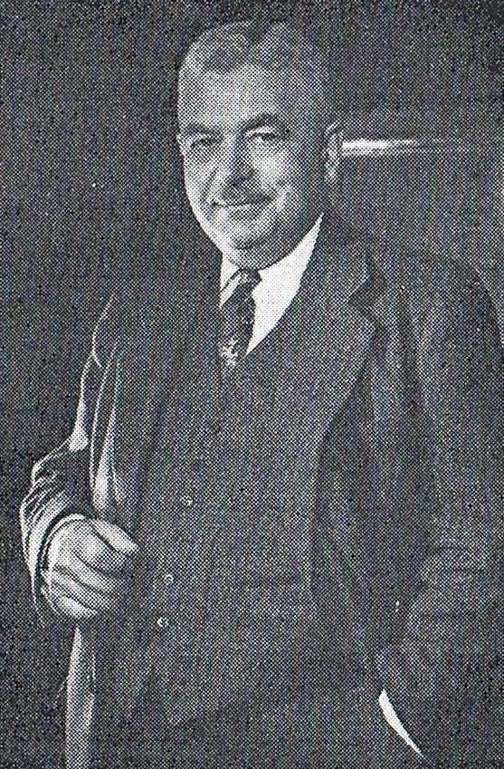 Mt Carroll businessman and college trustee Samuel James Campbell, photo published in the October 1953 issue of the Shimer College Record.